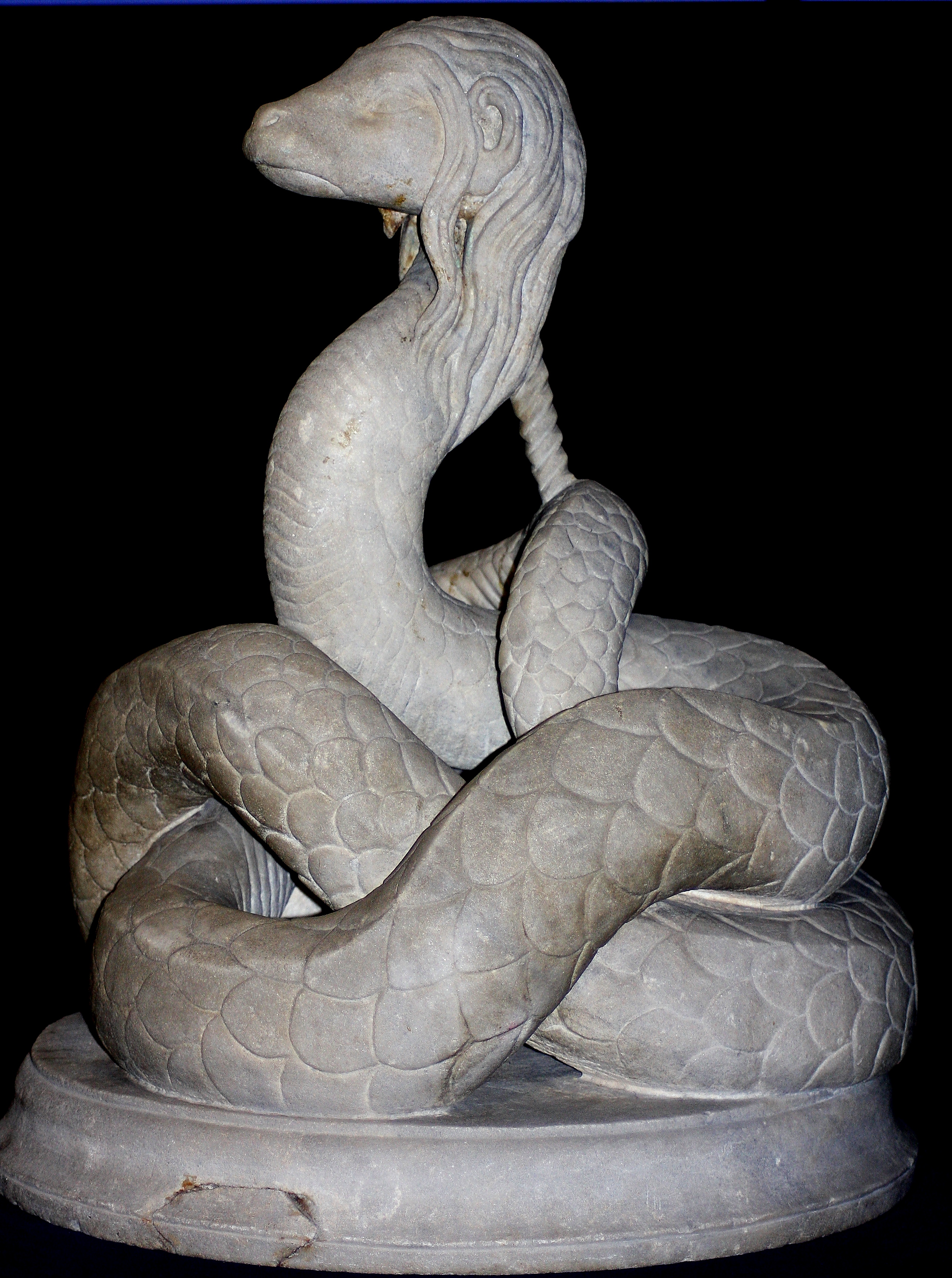 Glycon Depiction, Protector Of Tomis